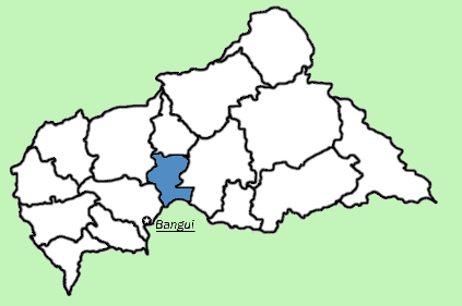 Map showing location of Kémo_Prefecture in Central African Republic